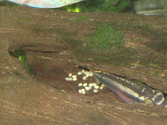 Pelvicachromis (female) with eggs